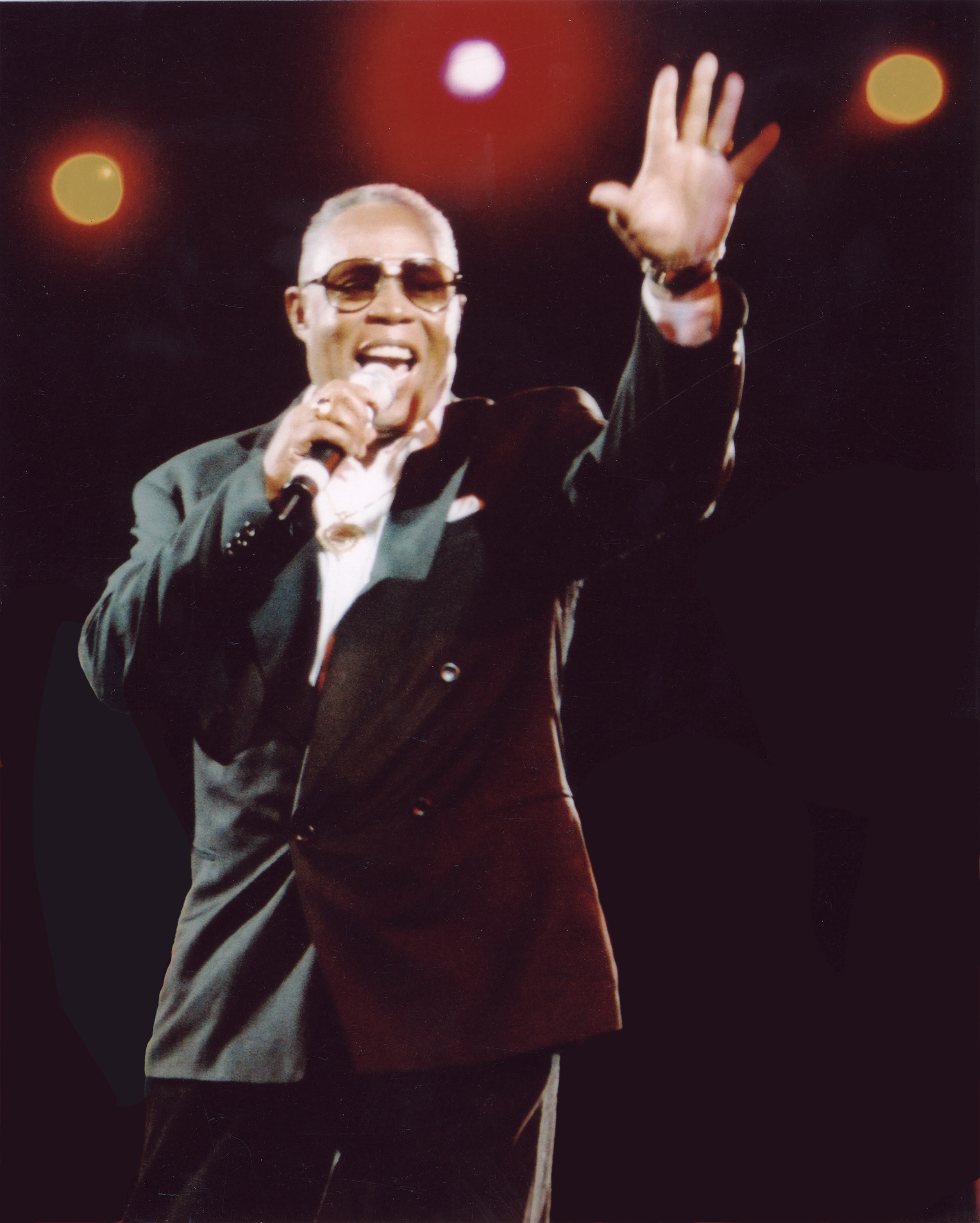 Sam Moore on stage.